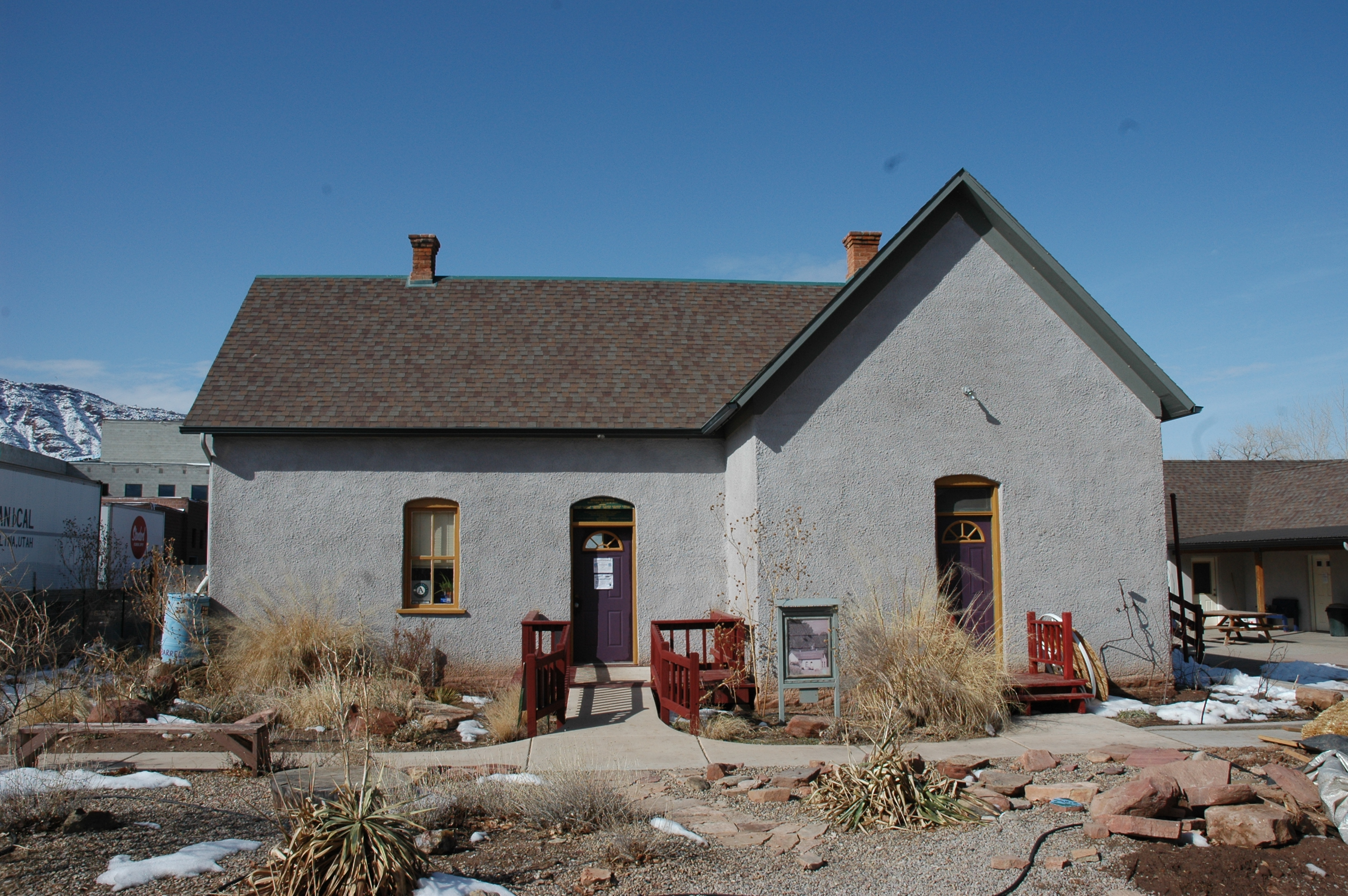 The John Henry Shafer House, a historic home in Moab, Utah, United States.